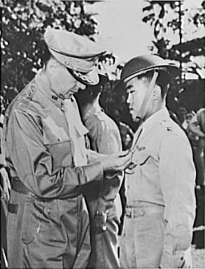 Manila, the Philippine Islands. In one of the last pictures to leave the Philippines before Manila fell to the Japs, General Douglas MacArthur (left) is shown pinning a Distinguished Service Cross on Captain Jesus A. Villamor, of the Philippine Air Force, for heroism in the air. In the center background is Lieutenant Jack Dale, of the U.S. Army.